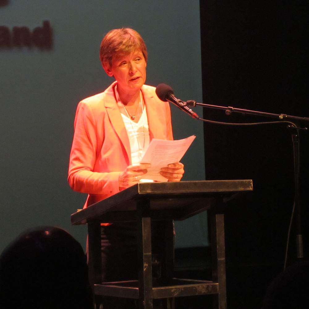 Chairperson Tanja Ineke of the Dutch gay rights organization COC